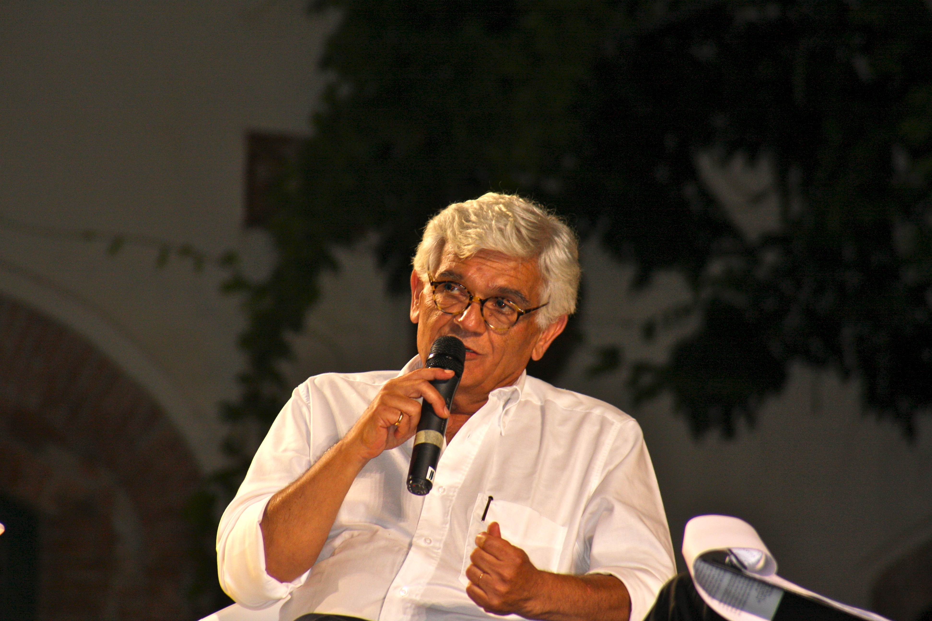 Mario Spezi presenting his book "Dolci colline di sangue" ("The Monster of Florence" in its English version).